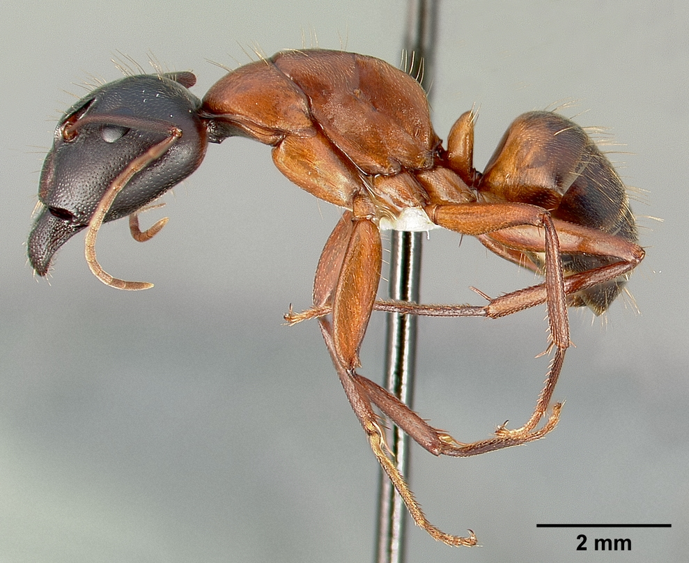 Profile view of ant Camponotus semitestaceus specimen casent0005352.